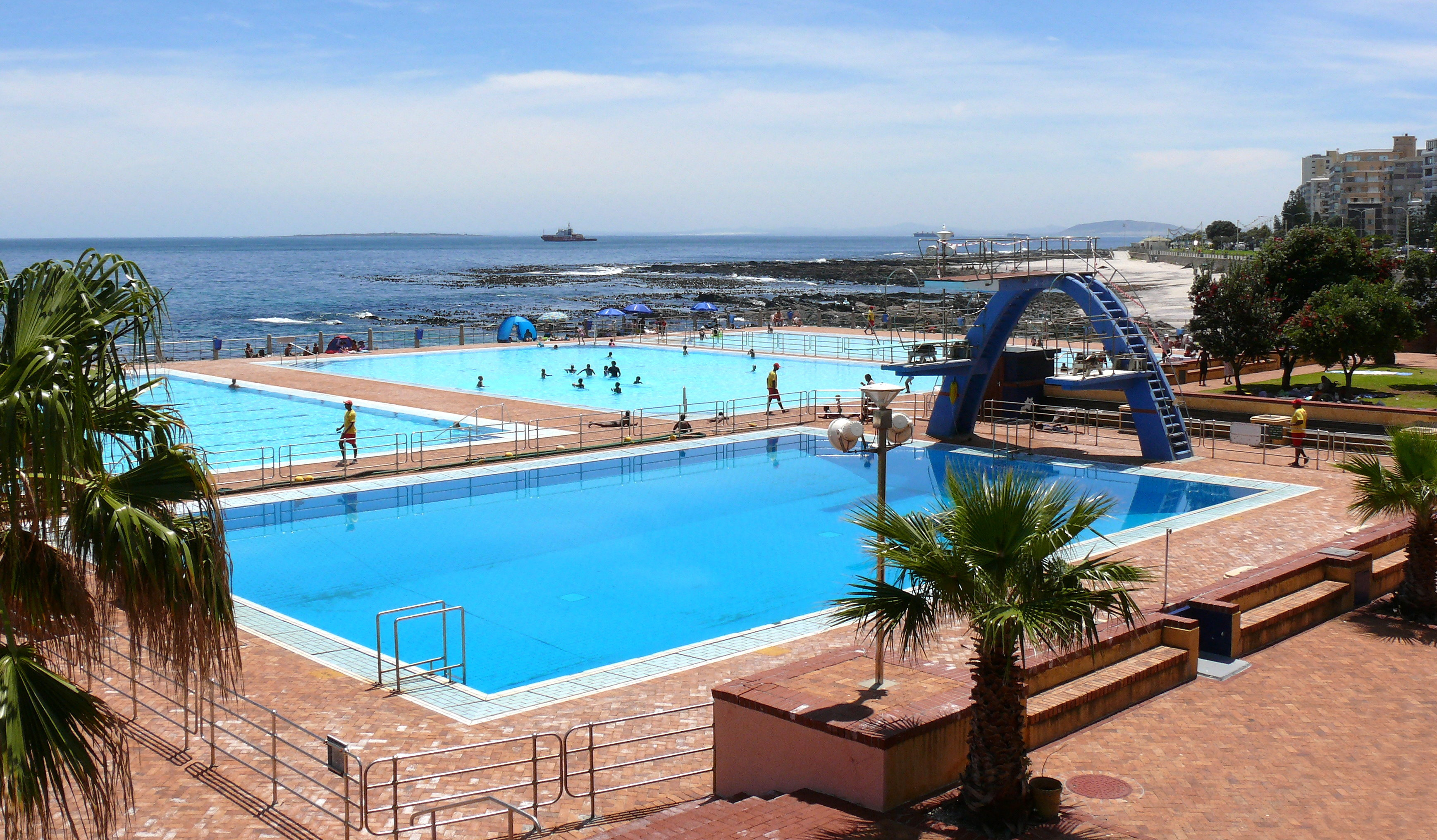 The Sea Point Pavilion by the sea in Cape Town, South Africa. Photo by Hilton Teper.